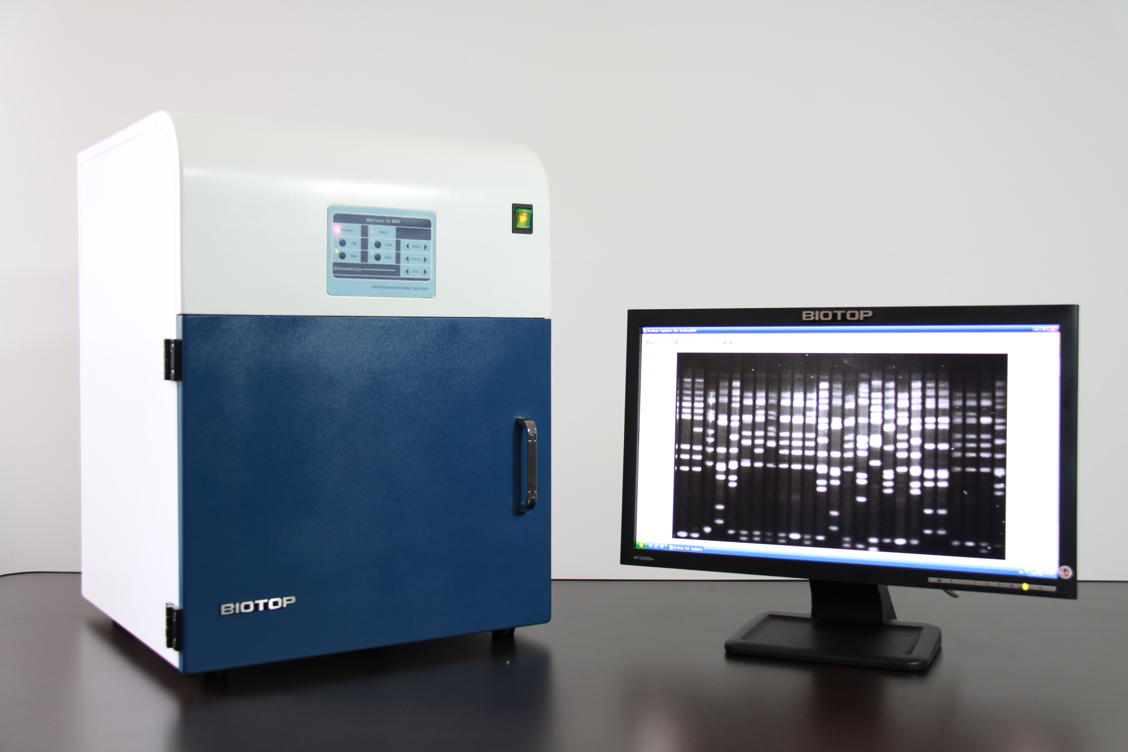 This is a gel documentation system with a pc, with the analysis software, the user can do more than before